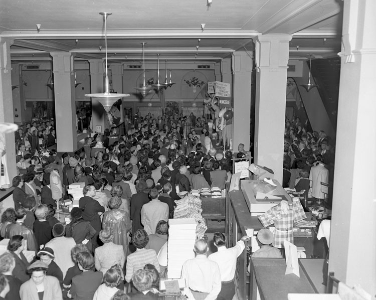 Title: Staff training for Miller & Rhoads May sales Creator: Adolph B. Rice Studio Date: 1952 Apr. 28 Identifier: Rice Collection 97H Format: 1 negative, safety film, 4 x 5 in. Repository: Library of Virginia, Prints and Photographs, 800 E. Broad St., Richmond, VA, 23219, USA, :8881/R